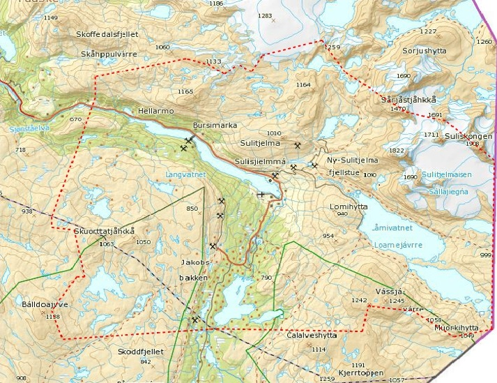 The map shows the different mines in Sulitjelma. The red dotted line is the property for the mine company, marked approximately.